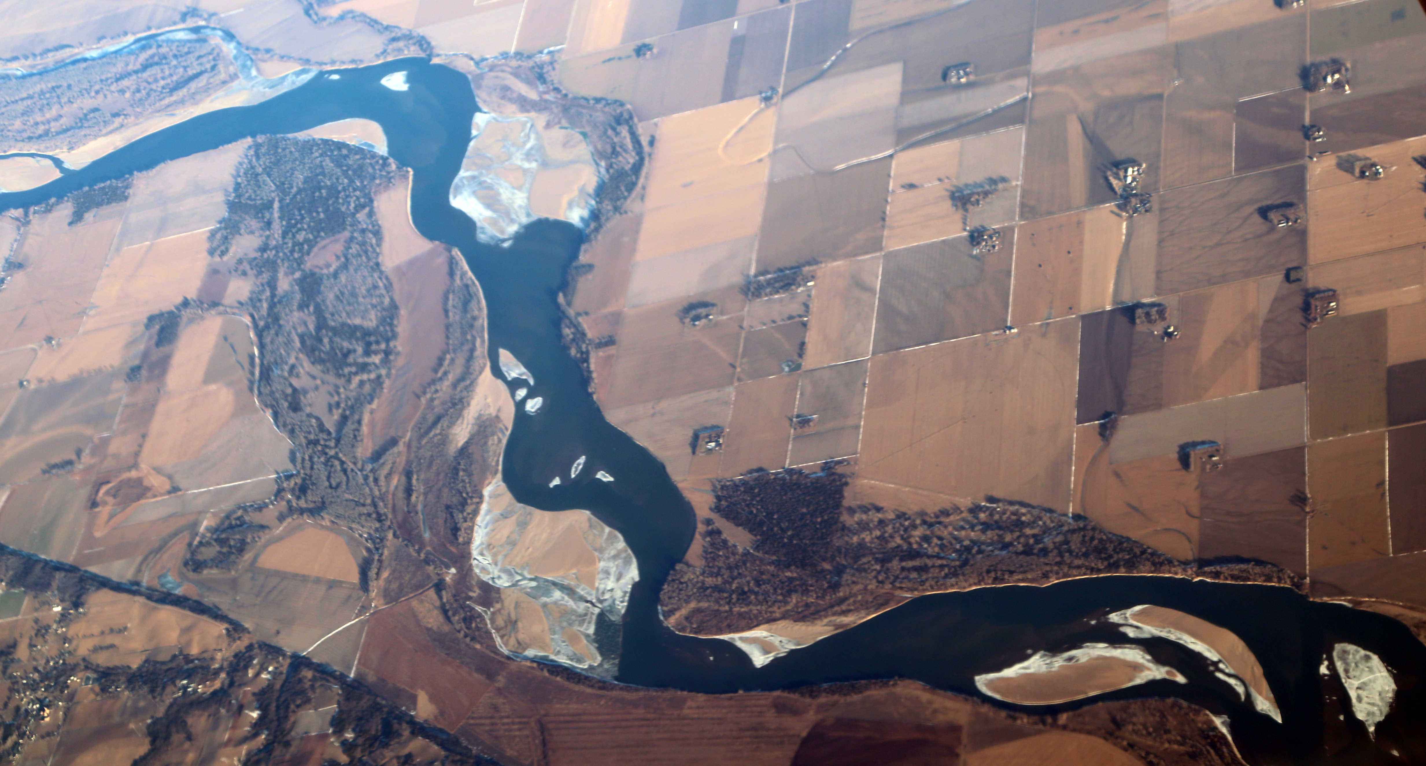 The Missouri River in winter downstream from Yankton, South Dakota, with Nebraska below and South Dakota above. Bottom left is bluff Quaternary loess (soil deposited by wind) and other buried soil over over Cretaceous Niobrara Formation chalk and Carlile shale. All of this was under the far edge of the Wisconsin Ice Sheet, which departed around 50,000 years ago.